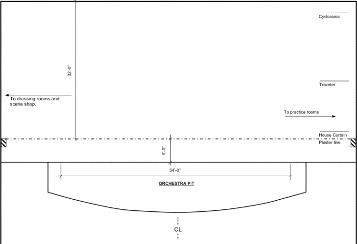 A stage diagram for the J. Everett Collins Center for the Performing Arts in Andover, Massachusetts.